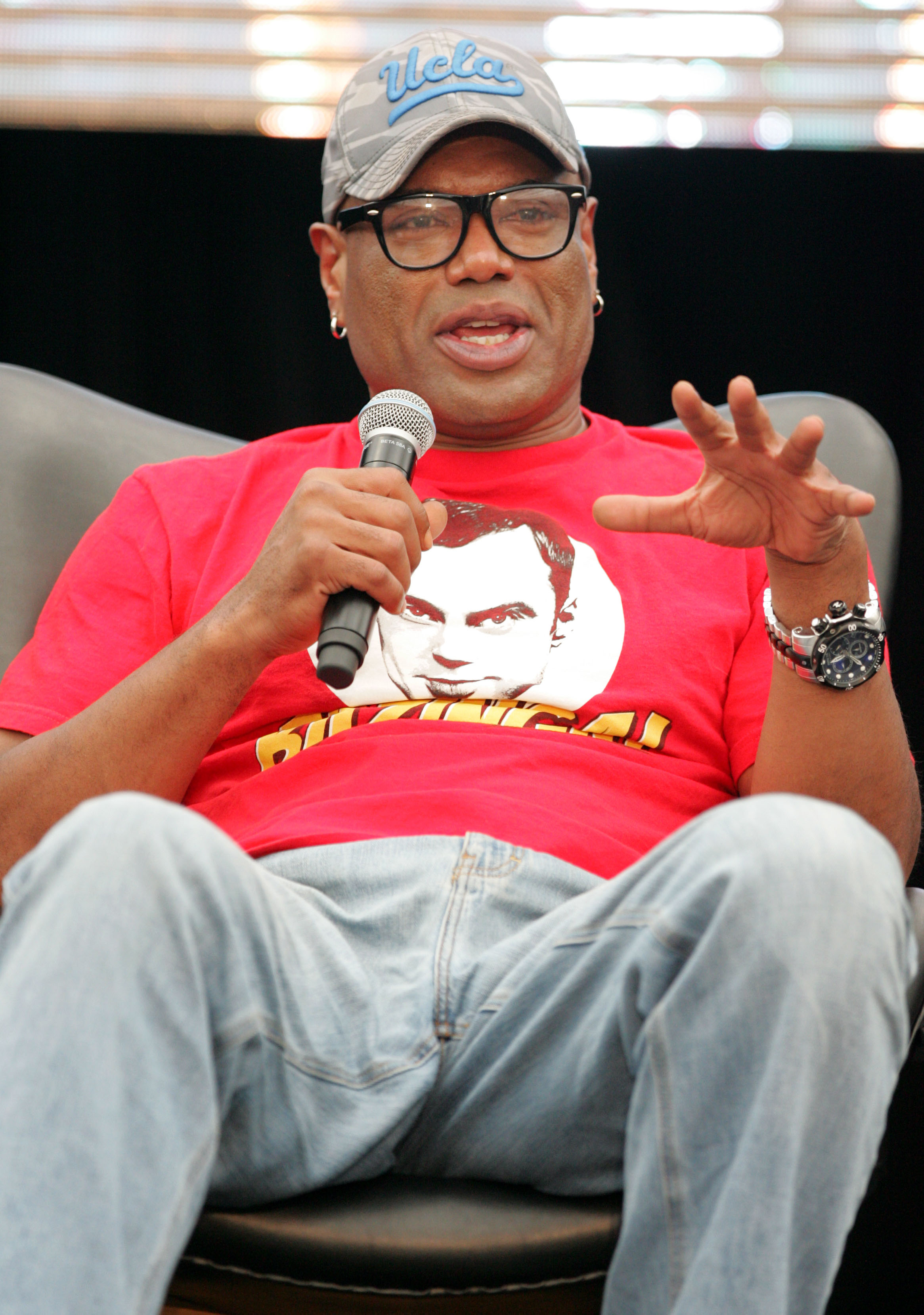 Christopher Judge at Oz Comic Con Sydney 2014